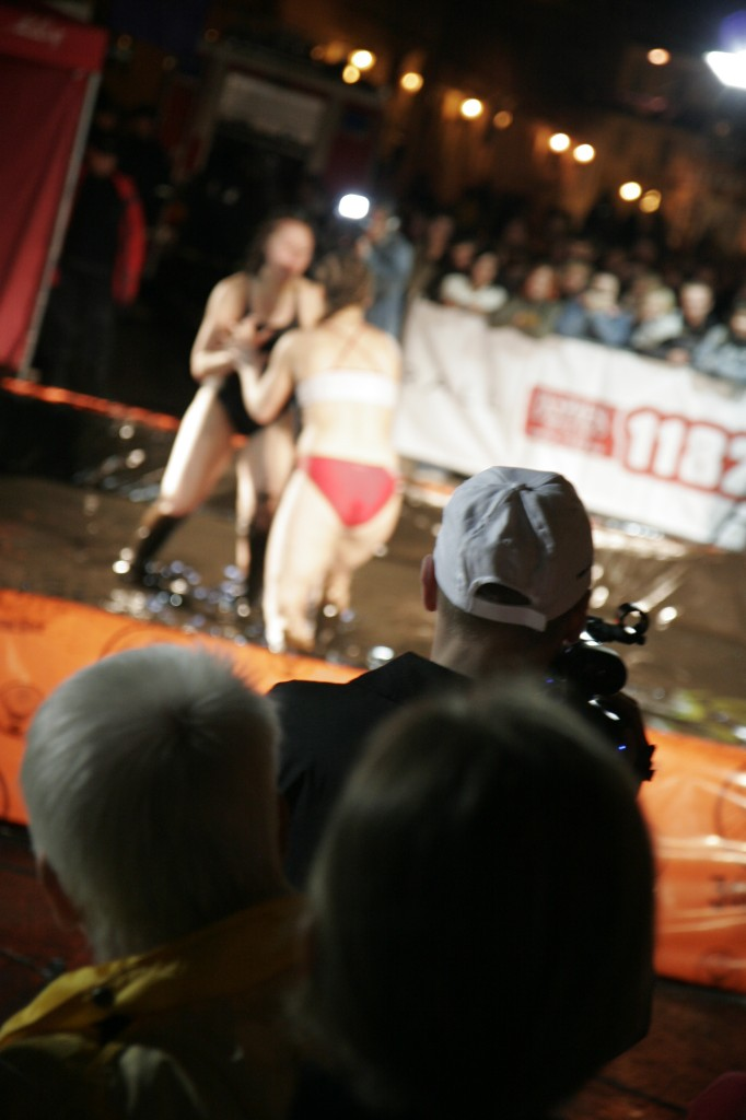 Tartu University official female mud wrestling, part of the Student Days celebration.